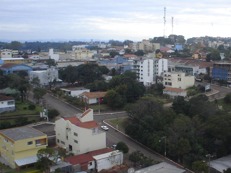 São Miguel do Oeste, Santa Catarina, Brazil